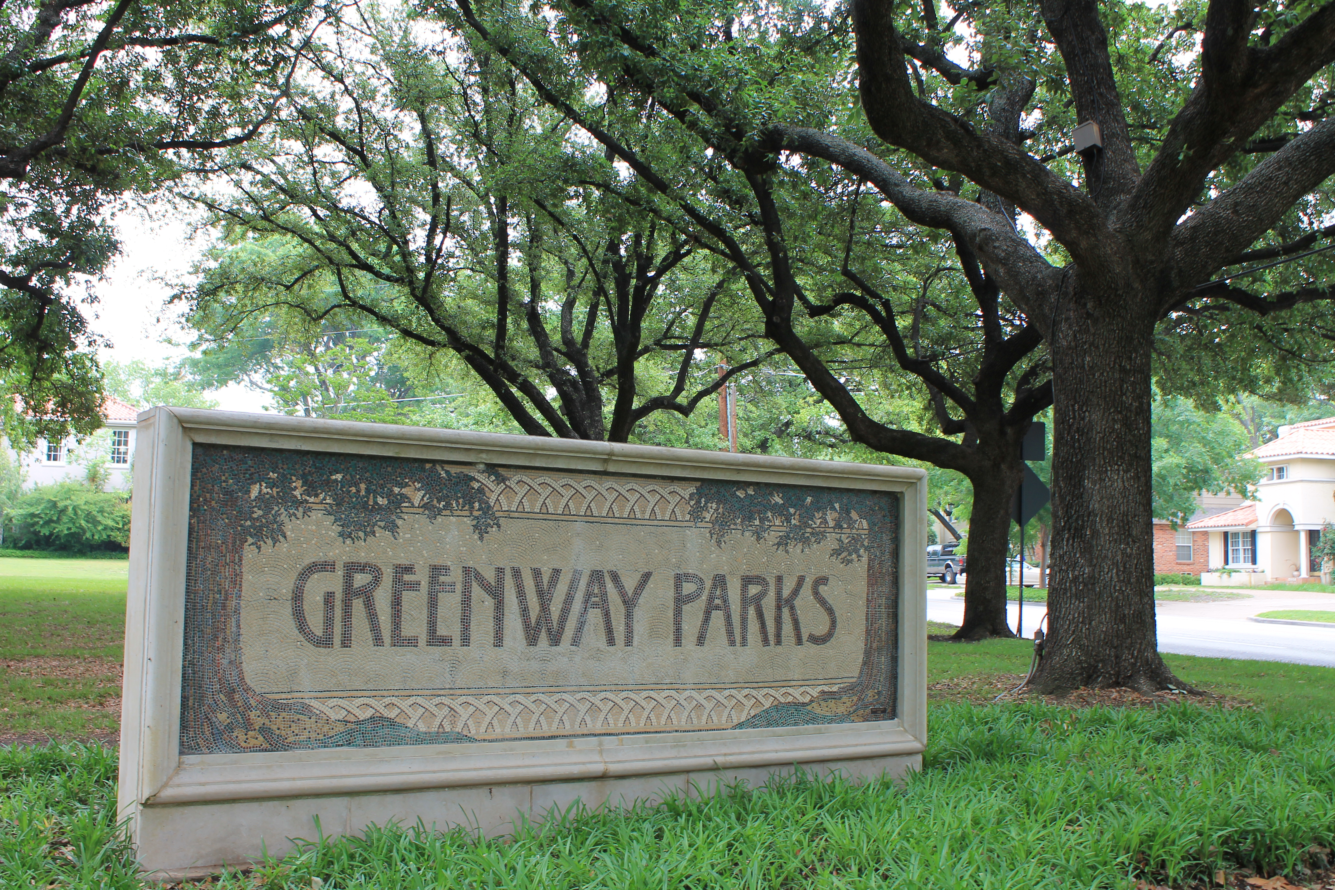 Greenway Park Historic District